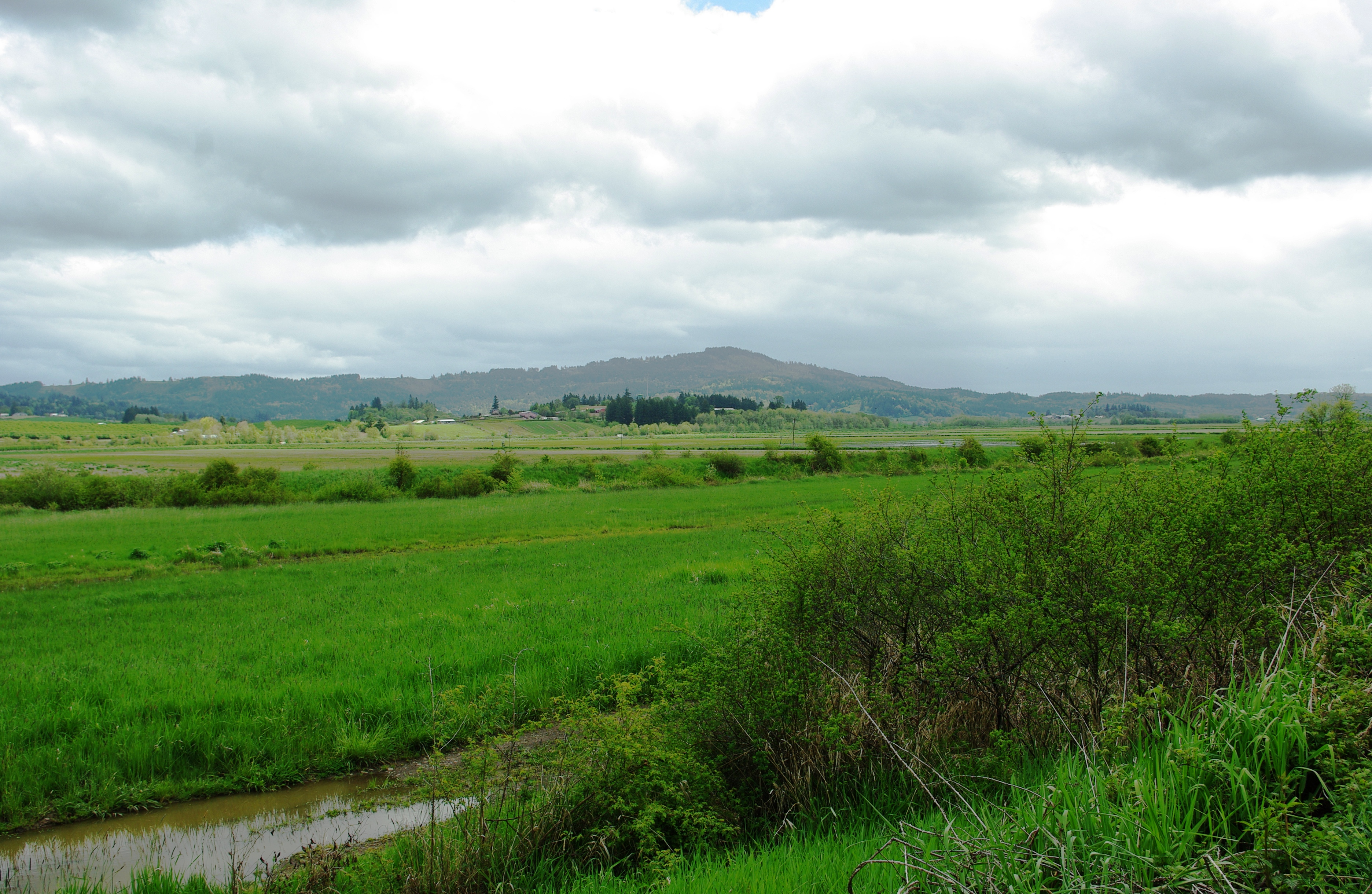 Former (and possibly future) lake bed of Wapato Lake near Gaston, Oregon, USA